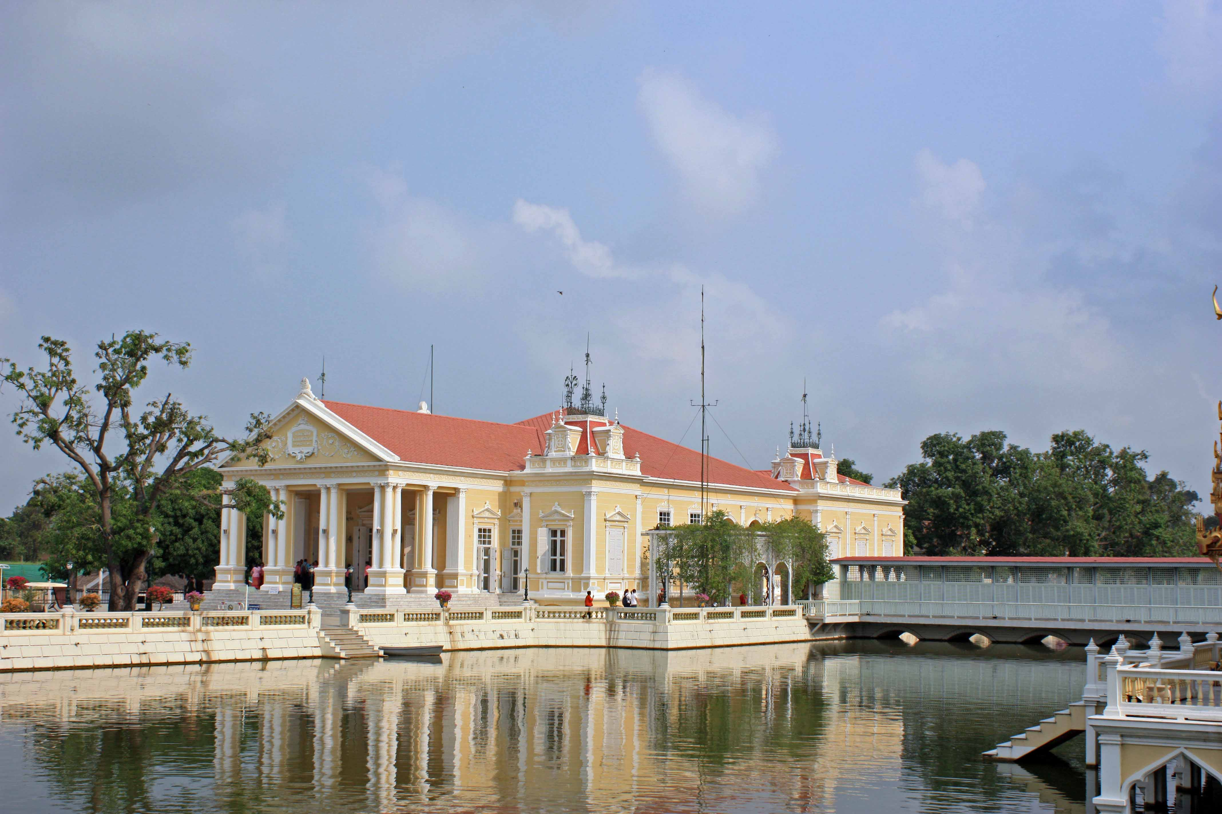 Phra Thinang Varobhas Bimarn, Residential Hall, Bang Pa-In Royal Palace, Thailand.